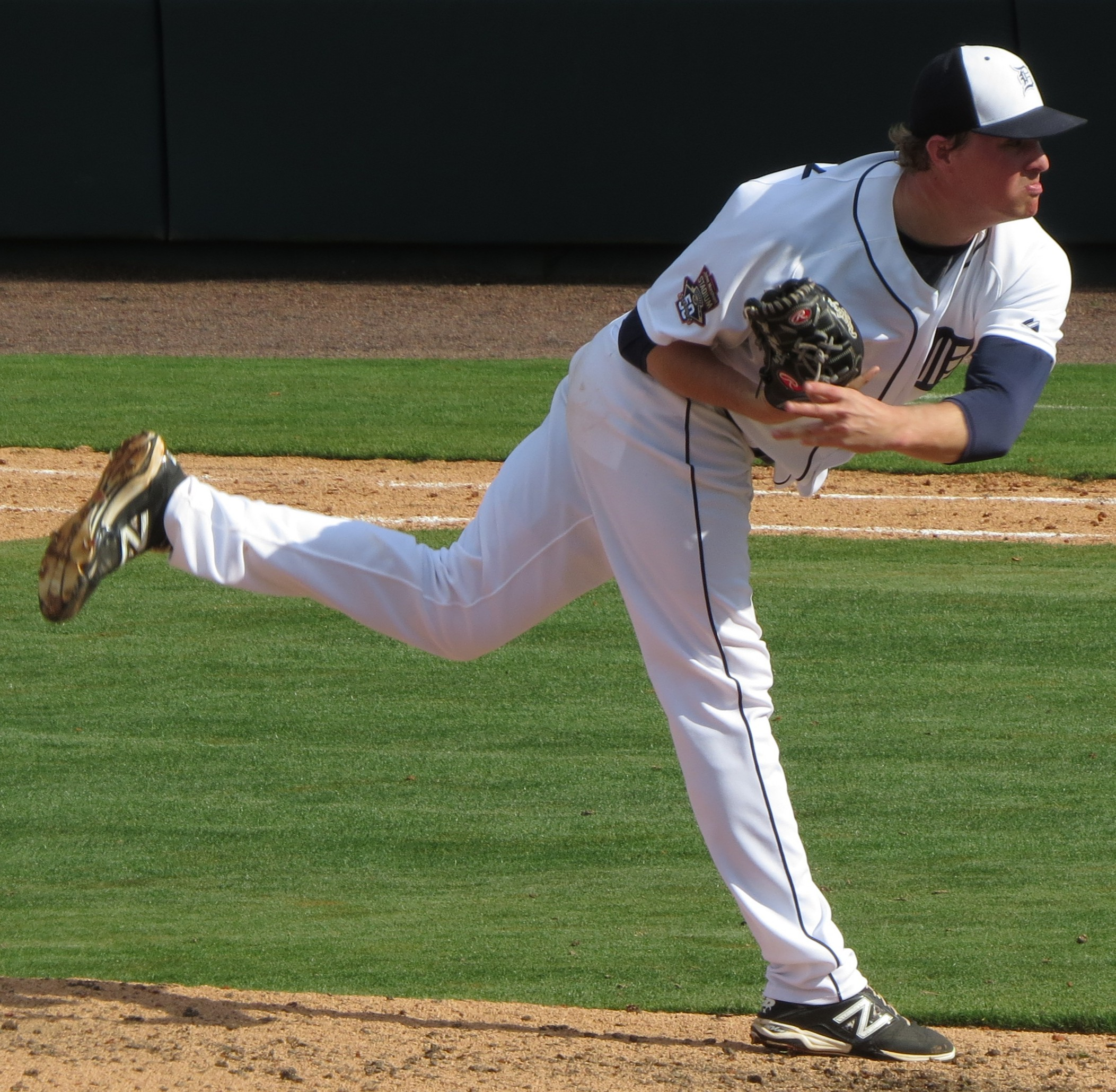 Joe Mantiply in 2015 Detroit's Spring Training